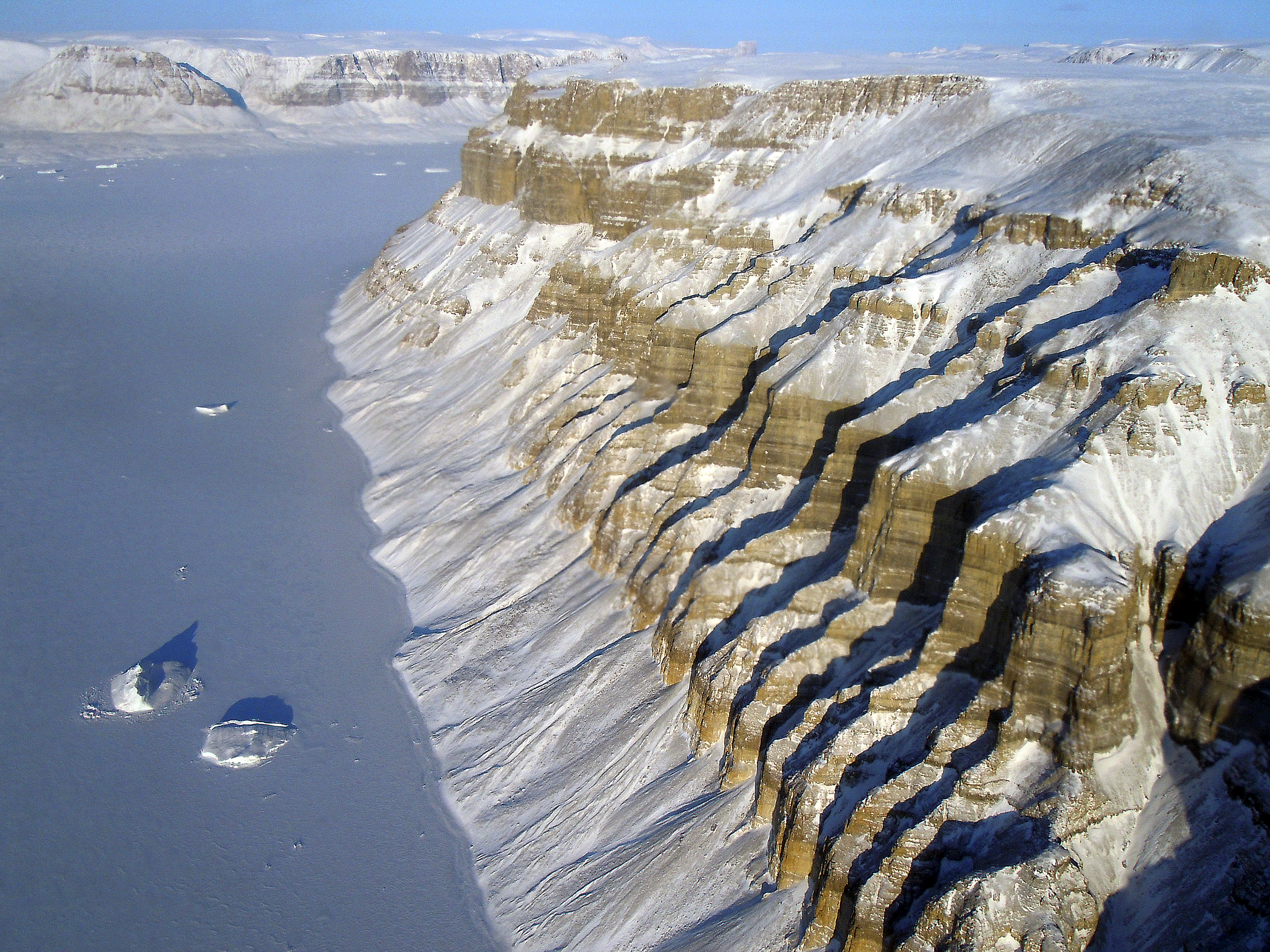 View of deep canyons, or fjords, along the coat of north-western Greenland. Thin, rocky ridges between the fjords cast their shadows nearly sideways, thanks to low-angled sunlight. Ice rests on the sea surface, and icebergs near the shore poke above the smooth sea ice. The area shown lies in the same region where the Petermann Glacier calved in the summer of 2010.